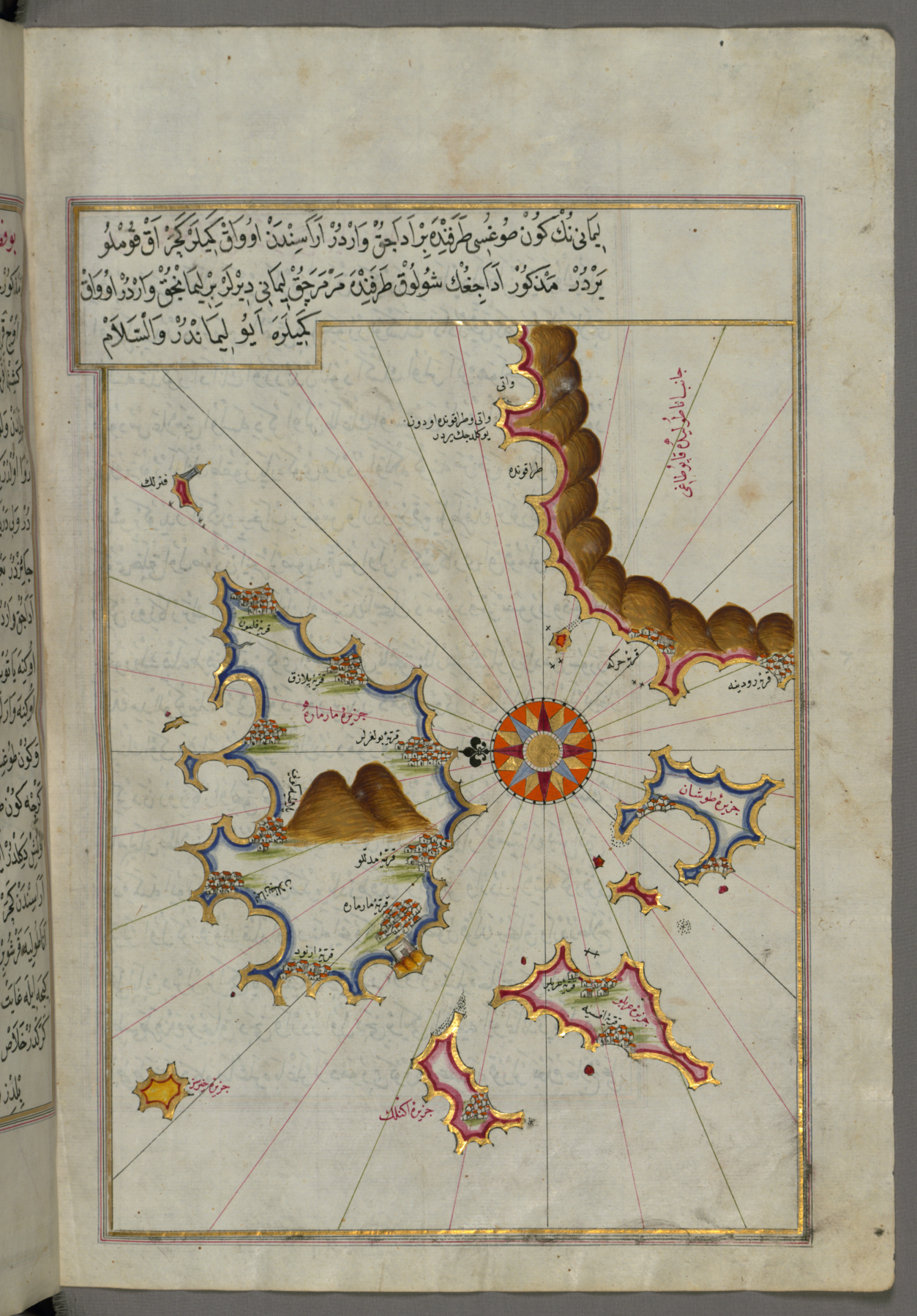 This folio from Walters manuscript W.658 contains a map of the island of Marmara in the sea of Marmara.